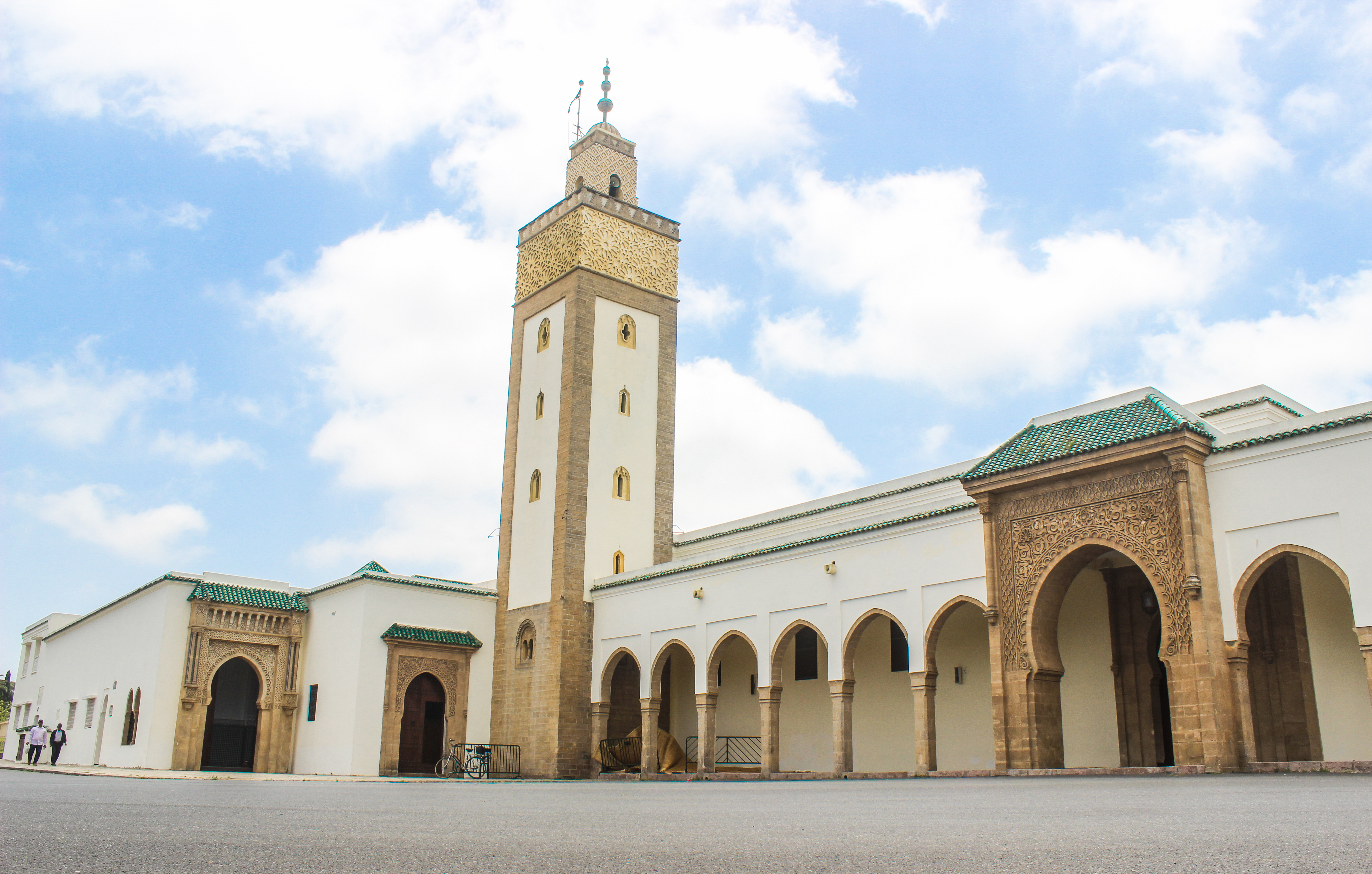 This picture was taken at the Royal palace in Rabat,Morocco. Camera Model- Canon EOS 600d Shutter speed- 1/100 ISO- 100 F-stop- f/13 Focal length- 18mm Metering- Partial flash- No white balance- Auto